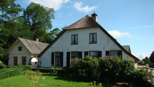 farmhouse at Langbroek